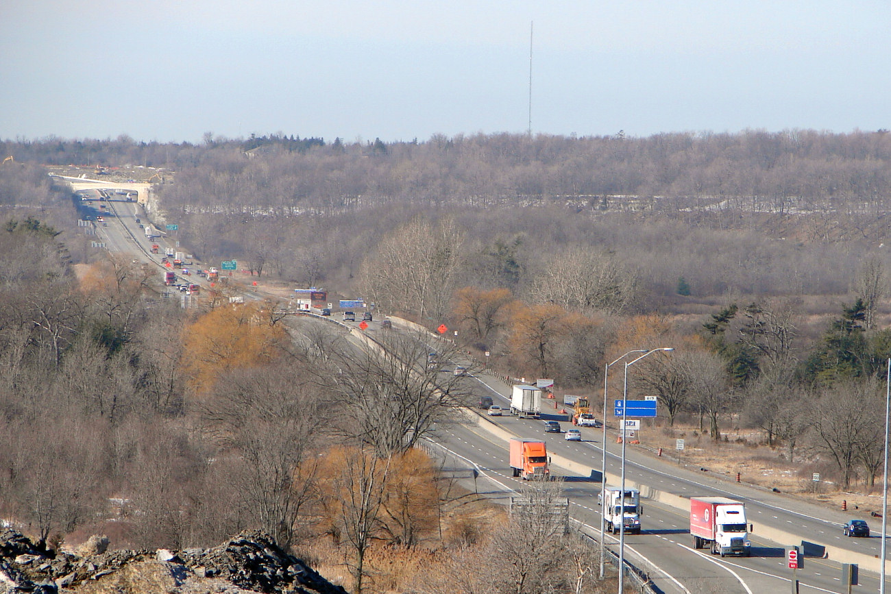 Highway 401 at Kingston, Ontario, Canada